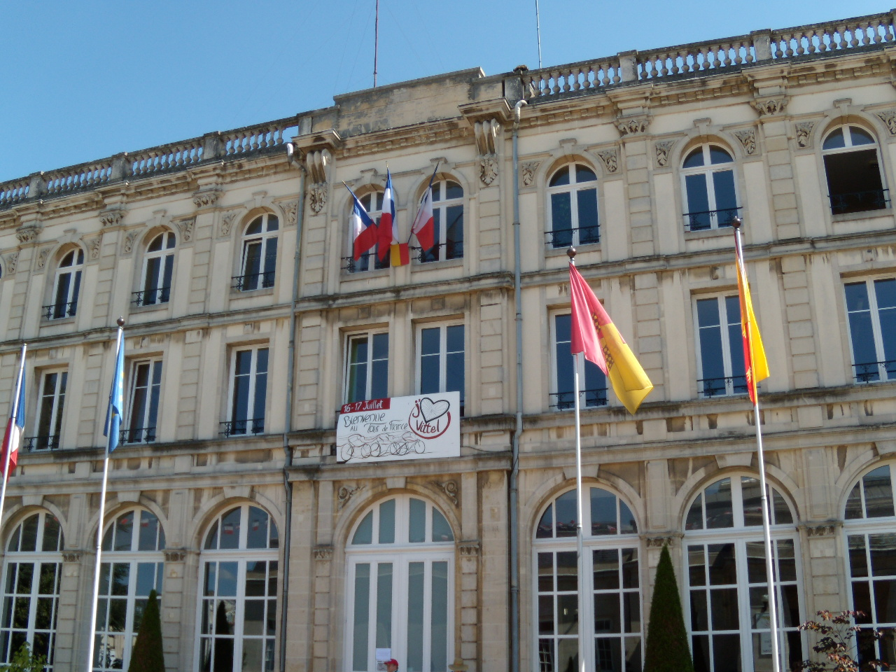 Mayoral Chambers of Vittel, Vosges, France during the 2009 Tour de France.